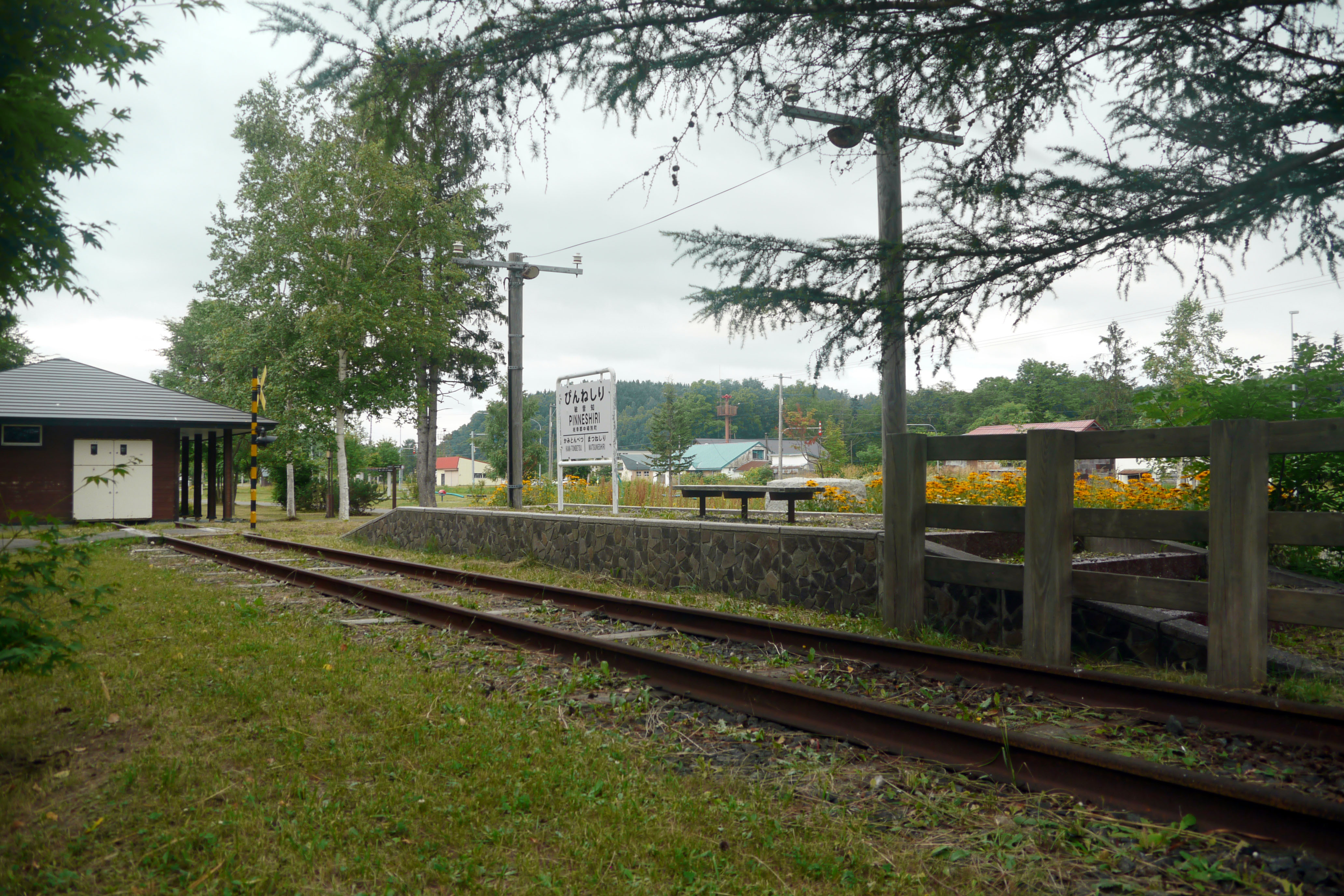 Remains of Pinneshiri Station of the Tenpoku Line in Hokkaido, Japan. Photo taken on August 6, 2011.